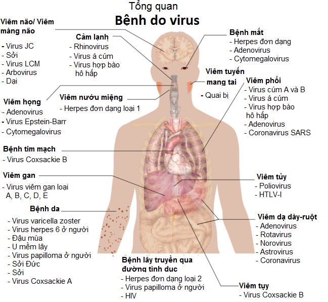 Vietnamse translation of File:Viral infections and involved species.png